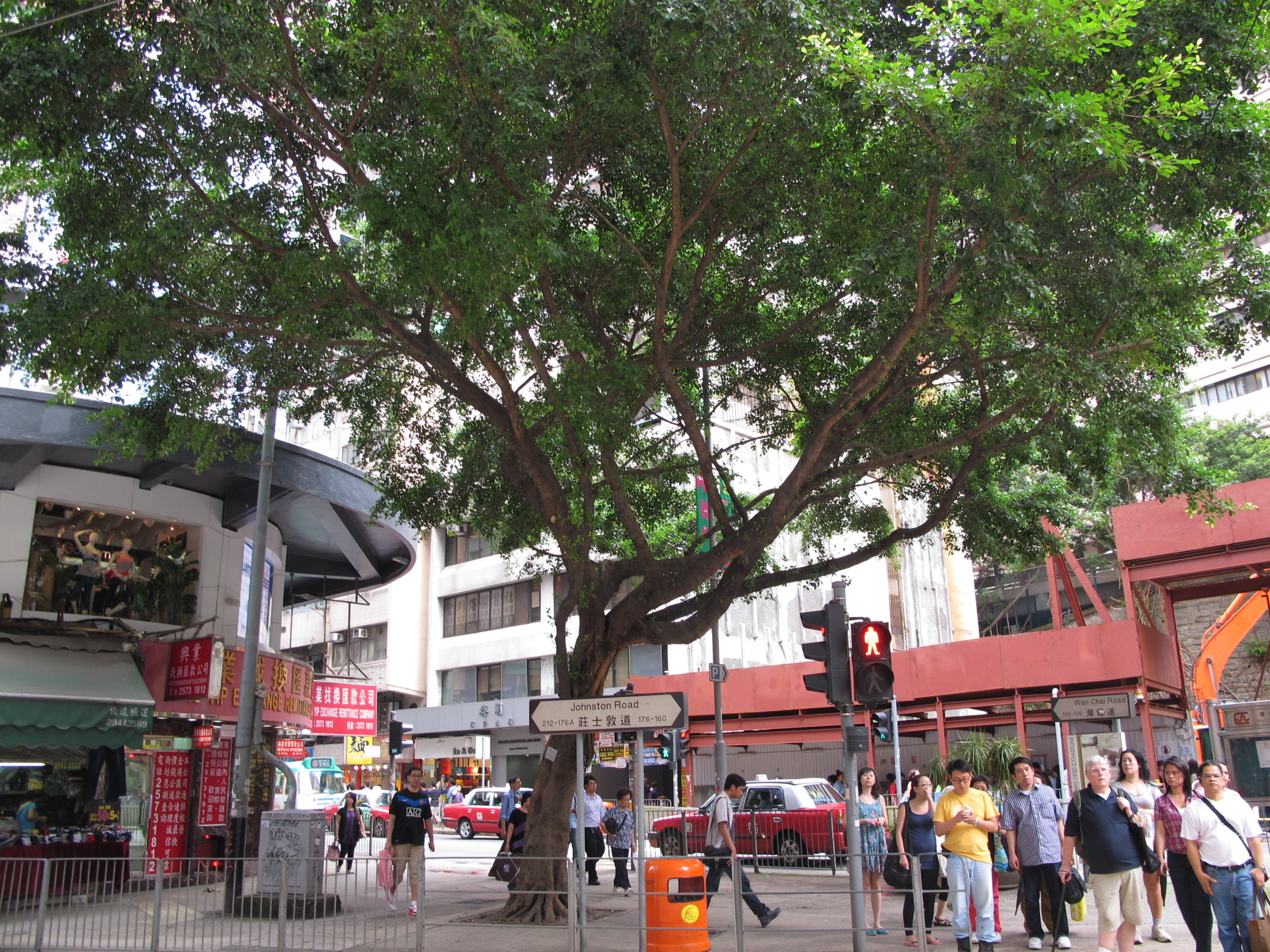 Johnston Road Tree